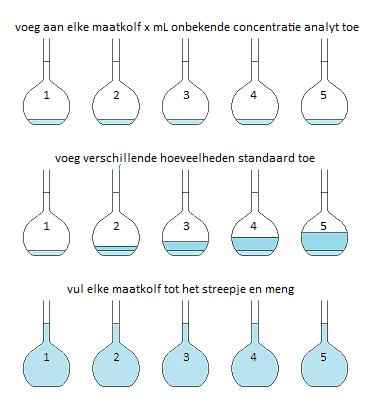 Example of a standard addition experiment